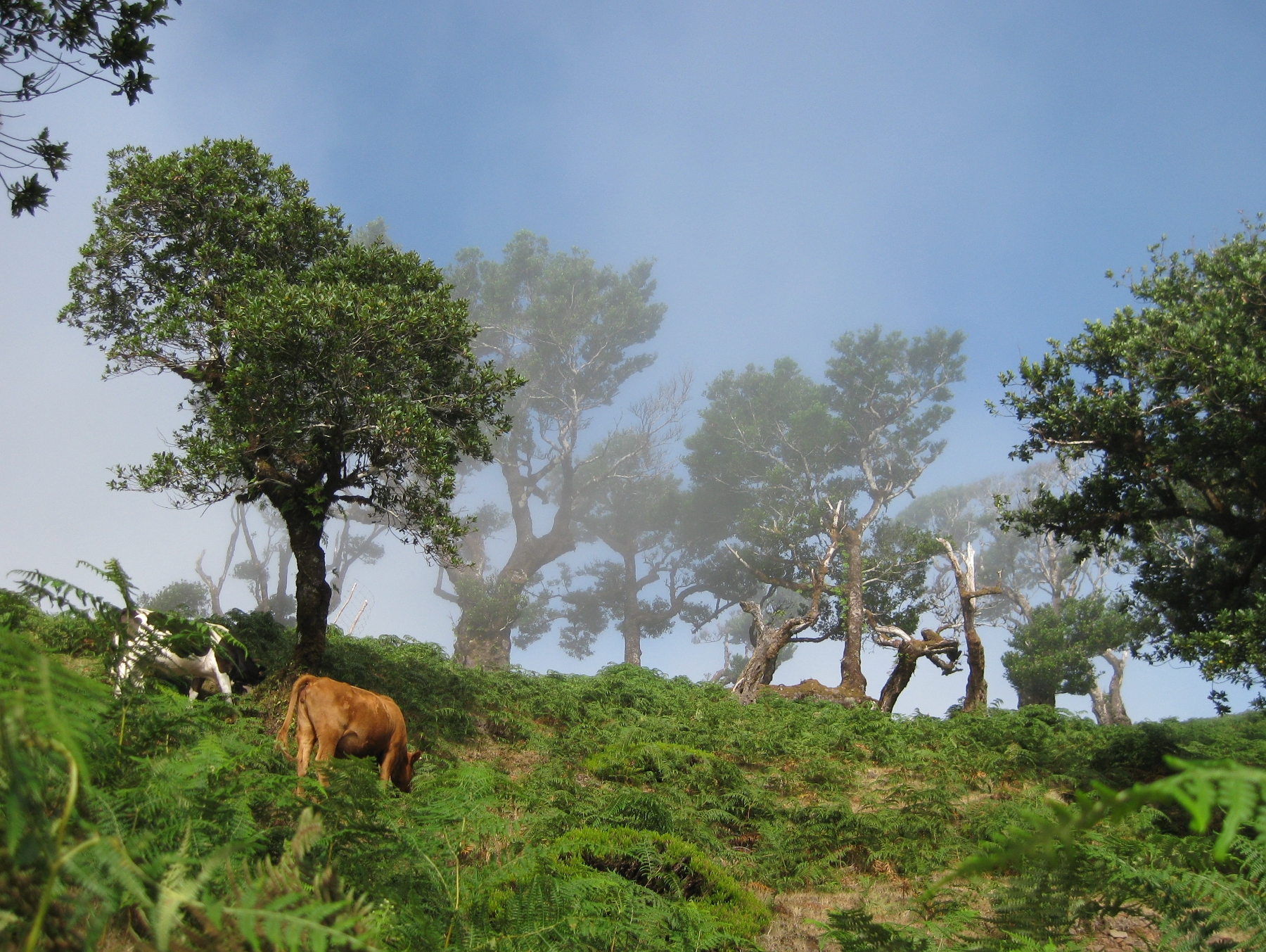 Laurazeen wood in madeira